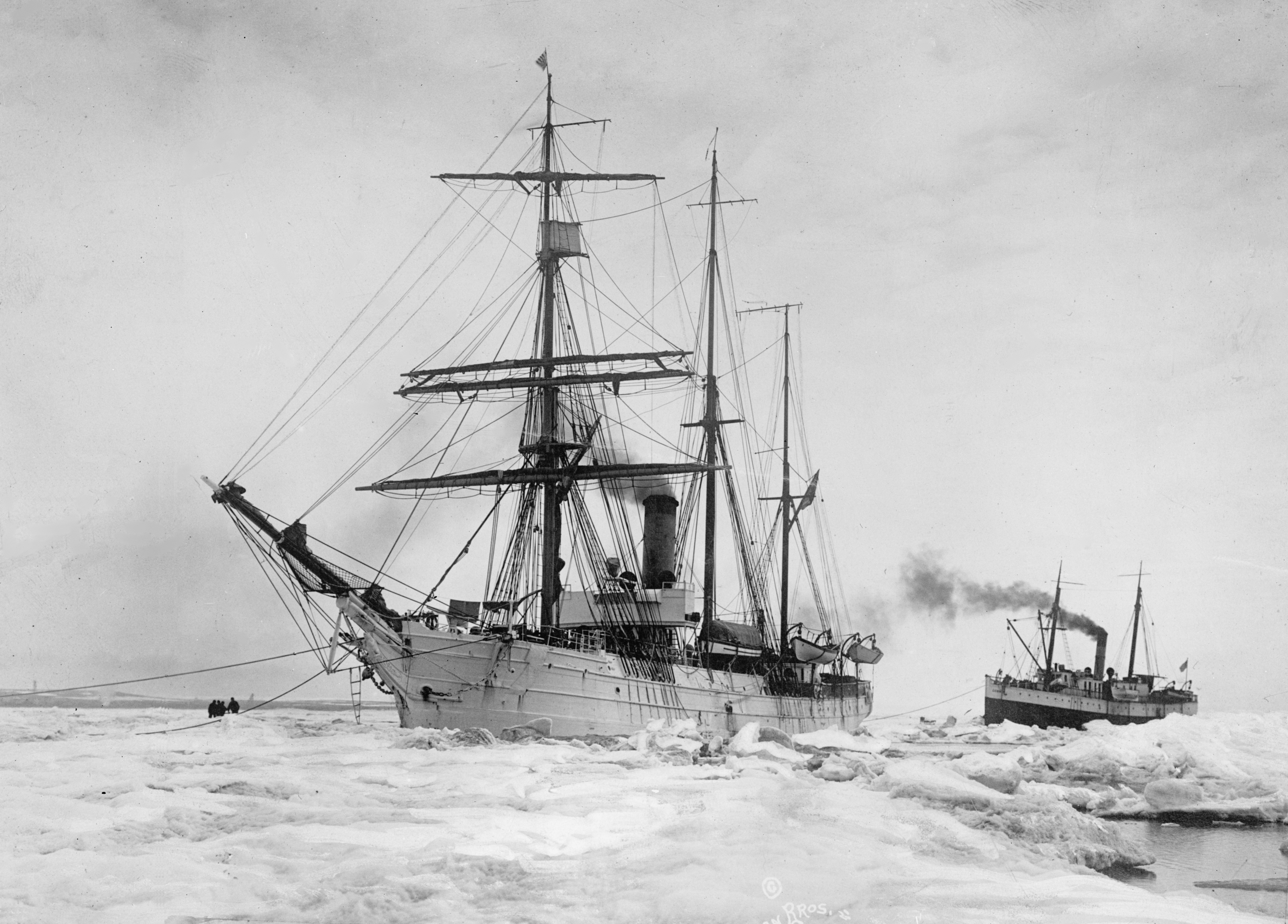 USRC Bear (left) and SS Corwin tied up in the ice at Nome roadstead, Alaska, the first arrivals of the 1914 shipping season. The Bear was the closest thing to an icebreaker operating in Alaska, and the Corwin (a former revenue cutter and usually the first commercial ship to reach Nome) the next closest. For this year it was arranged that Bear would clear a channel with Corwin following, and the other waiting steamers would follow the channel they made (New York Times, 31 May 1914. "Cutter Bear to go for Karluk's men") This version is cropped from the original.